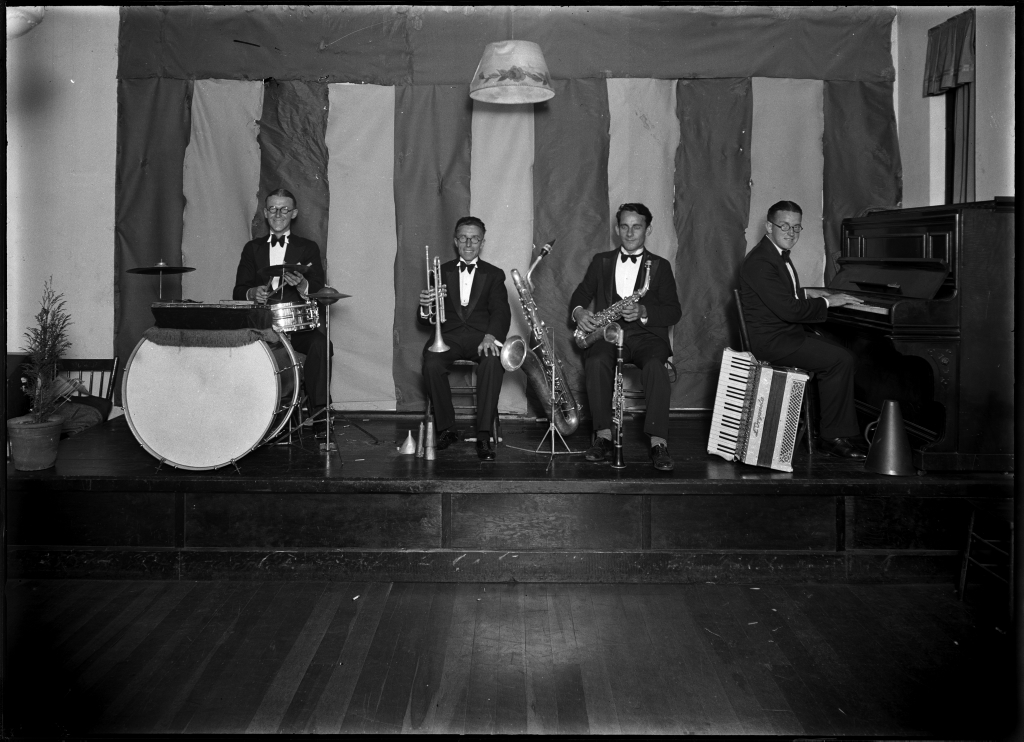 A photo from the Tom Lennon Photographic Collection from the Powerhouse Museum. This files was posted to Flickr by The Powerhouse Museum (See their website for further information). Many thanks to the Powerhouse Museum for helping release this wonderful material. This tag does not indicate the copyright status of the attached work. A normal copyright tag is still required. See Commons:Licensing for more information.